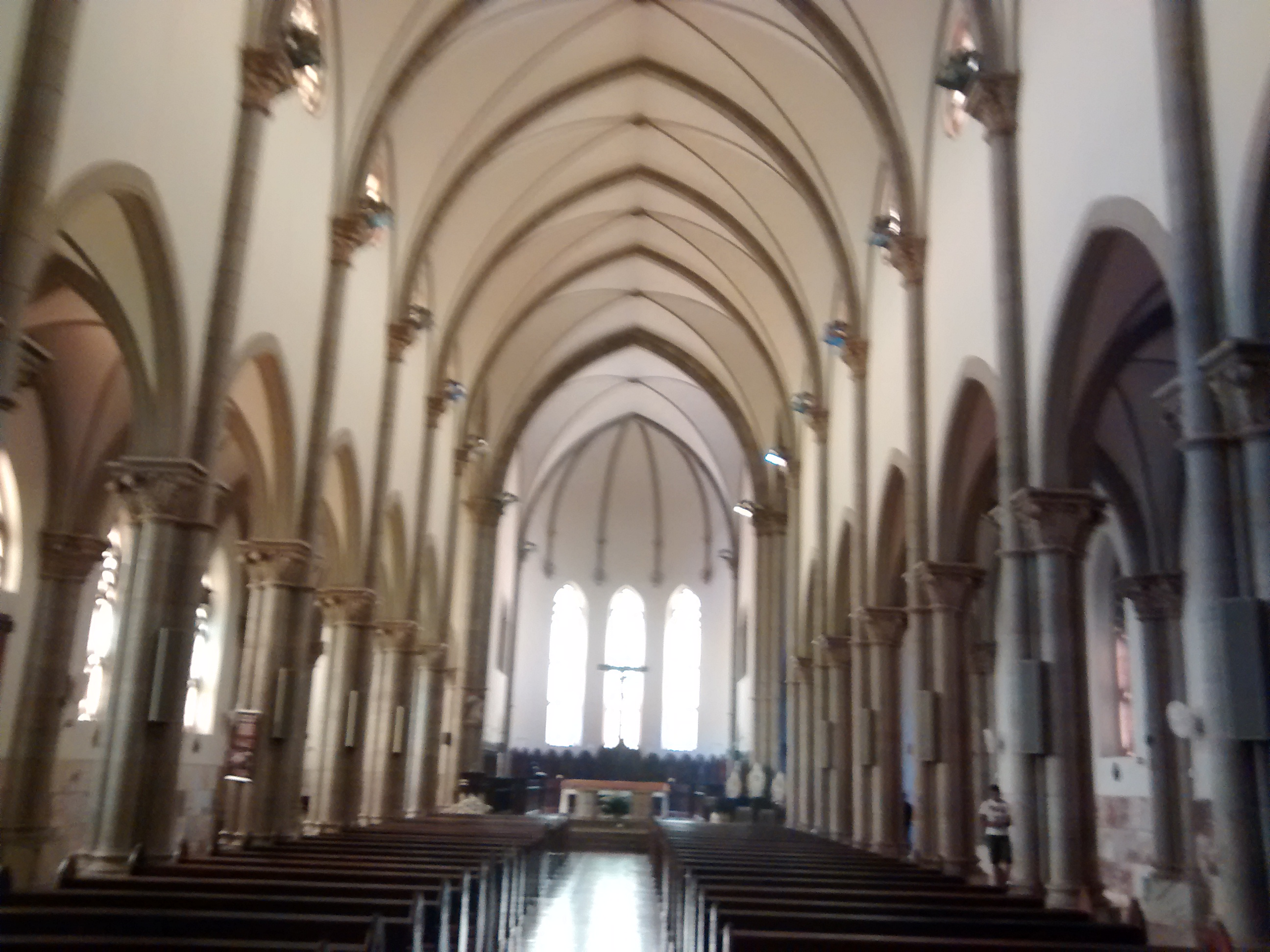 Monastery of Claraval, Minas Gerais, Brazil